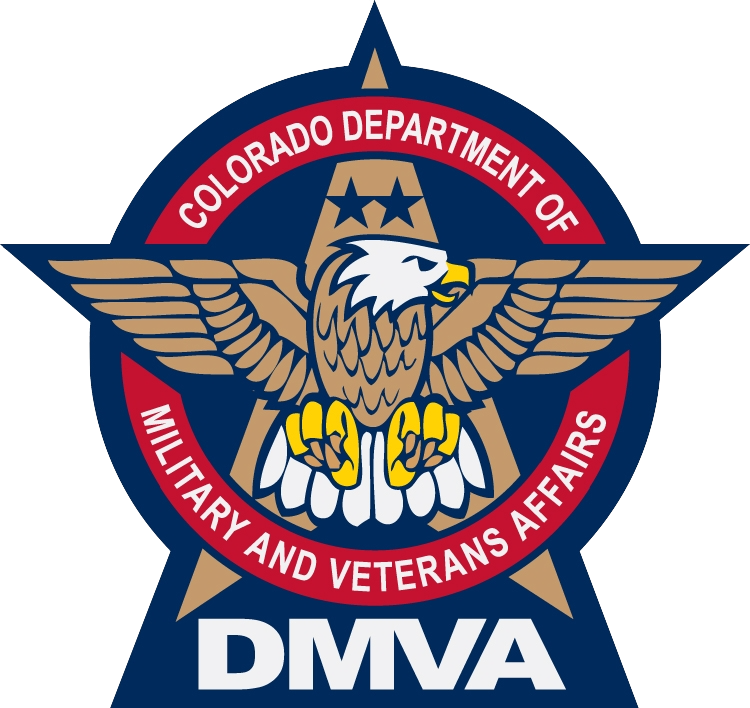 The logo of the Colorado Department of Military and Veterans Affairs, the government agency directly responsible for the Colorado National Guard.